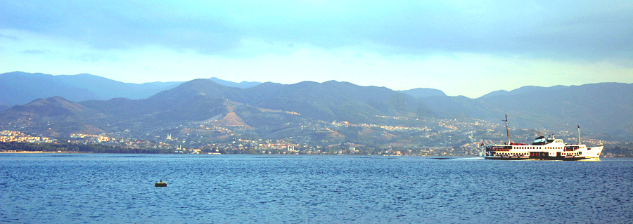 A commuter ferry at the Gulf of İzmit